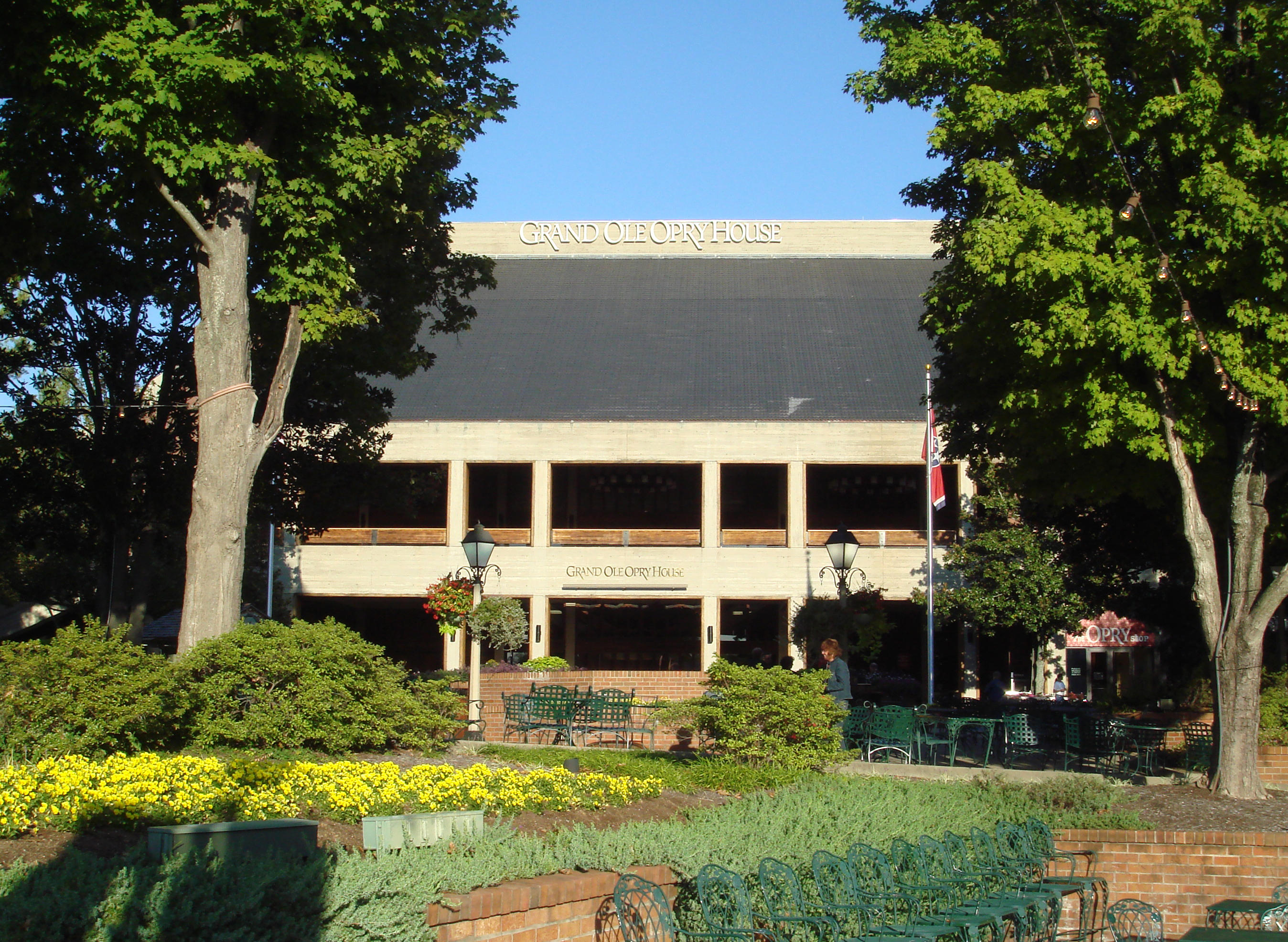 The modern Grand Ole Opry, Nashville, Tennessee